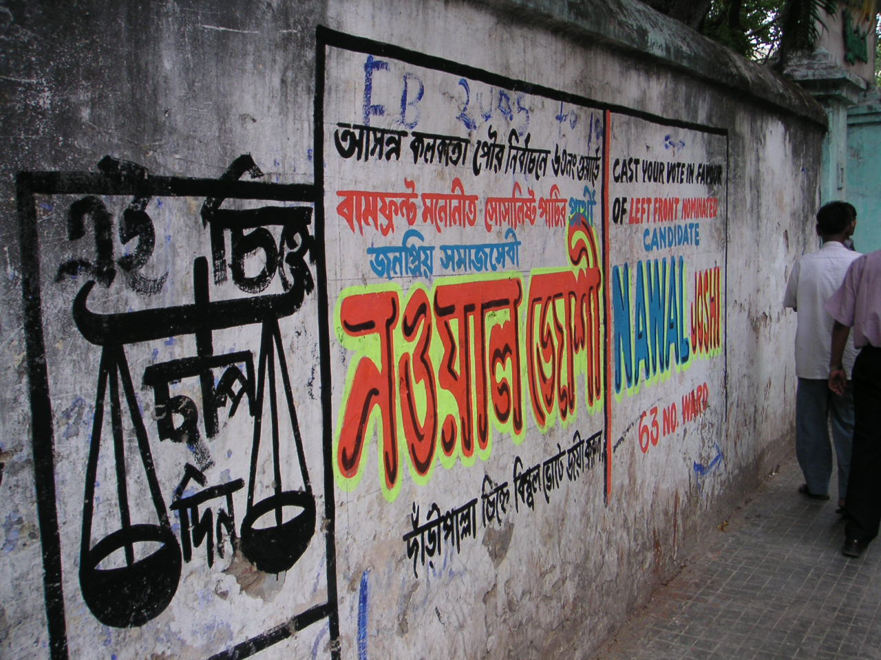 Campaign mural for West Bengal Socialist Party candidate Nawal Joshi for the 2005 Kolkata Municipal Corporation elections. Photo: Soman